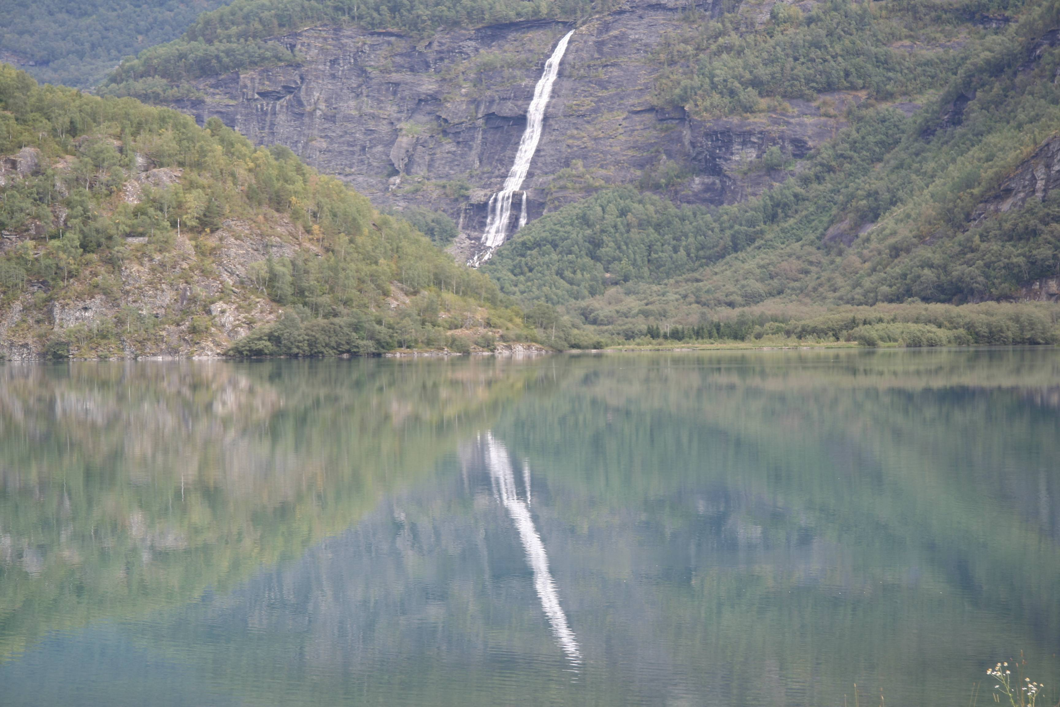 Description:From Skjolden, Norway. Ludwig Wittgenstein had a cabin where the tiny flag pole is (barely) visible, on the left hand side of the picture. The village of Skjolden itself is further to left, on the edge of the lake. Source:Own work Date: 9. aug 2005 Author: Jostein Sand Nilsen Permission: CC-BY 2.5